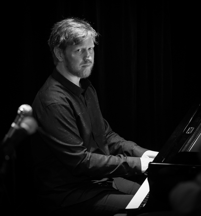 Helge Lien performs with Per Husby Dedications Orchestra at the stage of Nasjonal Jazzscene Victoria. The concert was part of the Oslo Jazz Festival in Norway and took place on 18. August 2016. Lineup: Karin Krog (vocal) Hermund Nygård (drums) Jens Fossum (double bass) Helge Lien (piano) Daniel Herskedal (tuba) Trude Eick (horn) Kristoffer Kompen (trombone) Eirik Eilertsen (trumpet) Ole Jørn Myklebust (trumpet) Kasper Værnes (saxophone) Knut Riisnæs (saxophone) Håvard Fossum (saxophone) Nils Jansen (saxophone) Per Husby (bandleader)